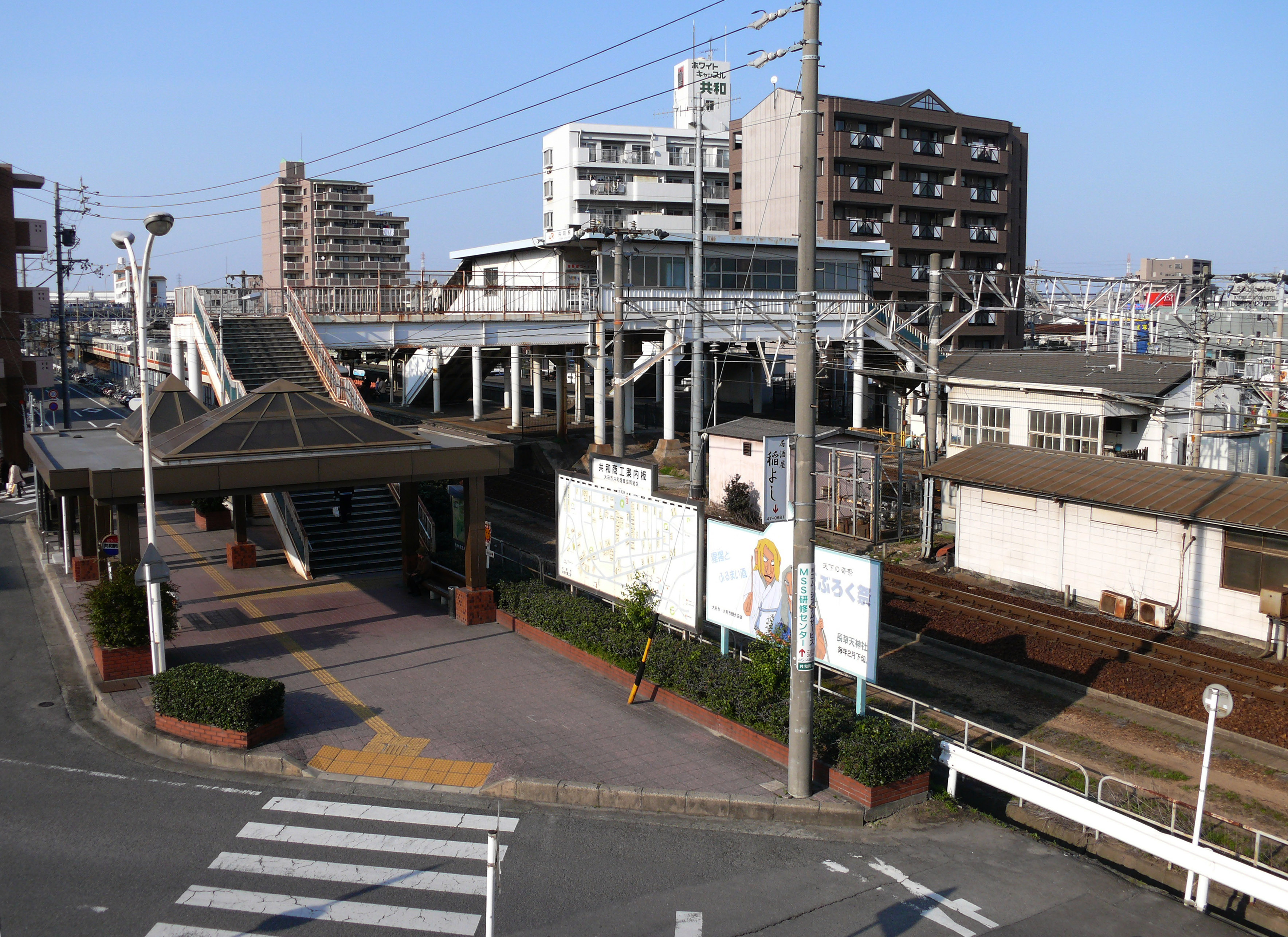 JR Central of Kyowa Station.